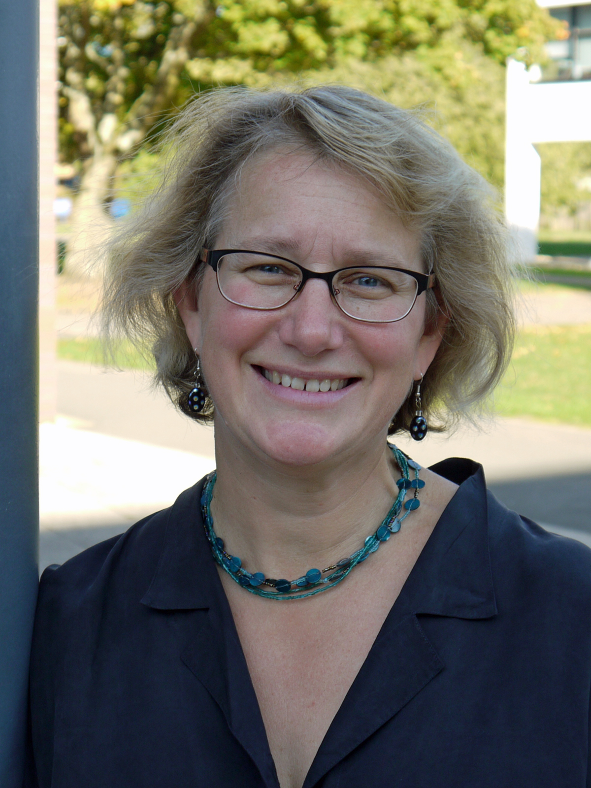 Portrait photograph of Professor Amy C Smith, taken autumn 2018 (at the University of Reading)